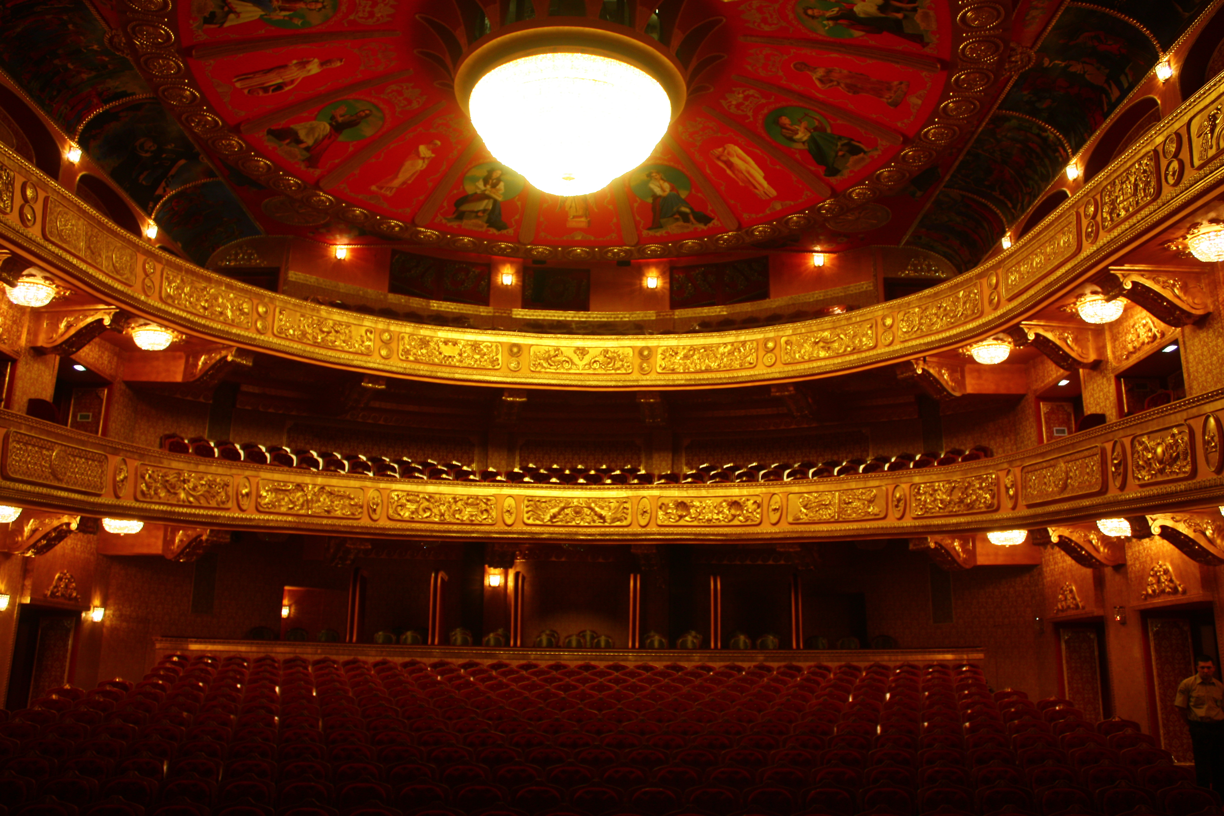 Macedonian National Theatre in Skopje , Macedonia